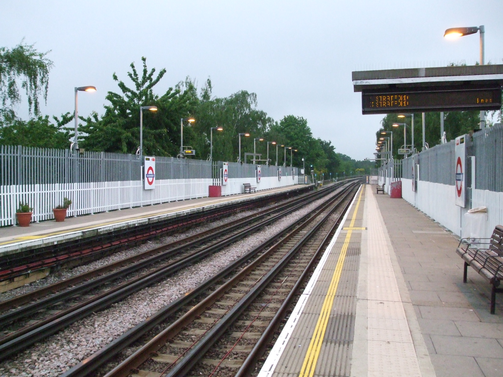 Queensbury tube station looking north ("westbound")